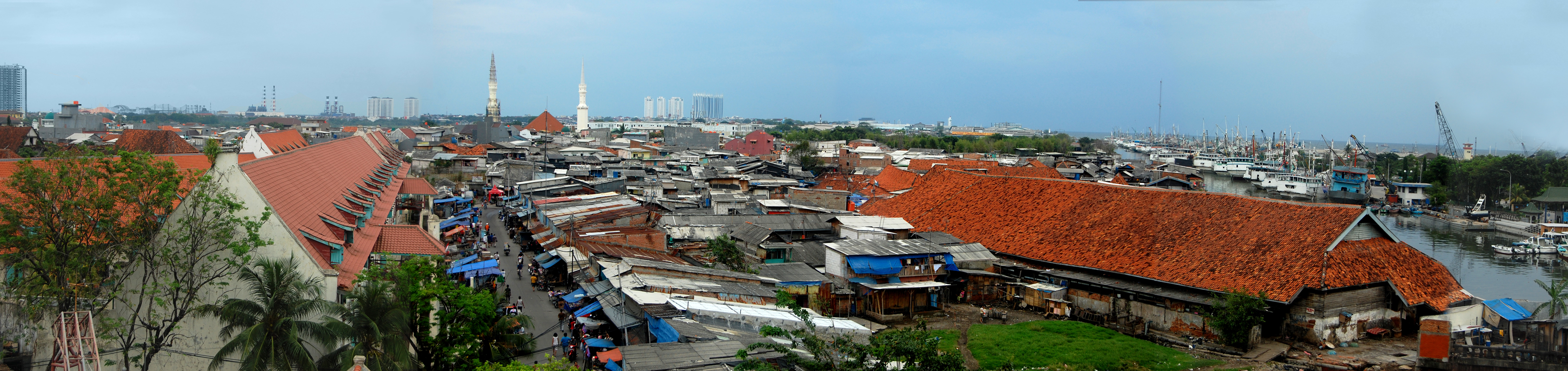 Panoramic view from menara syahbandar, Museum Bahari, Jakarta, Indonesia